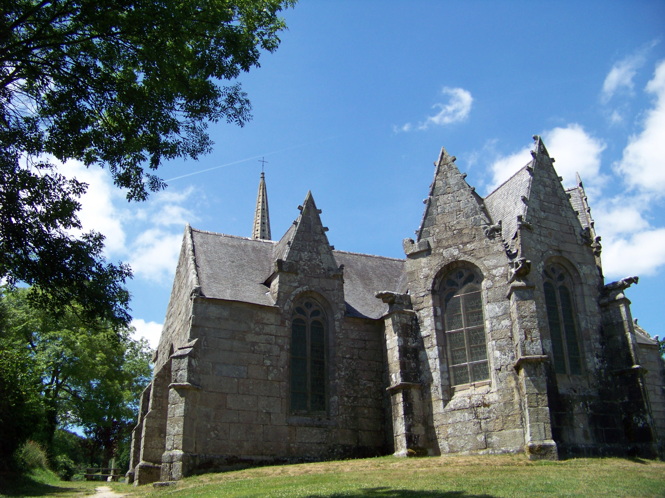 Chapel Saint Gildas near the valley of the saints, Karnoed, Brittany .